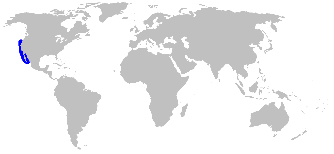 Distribution map for Triakis semifasciata